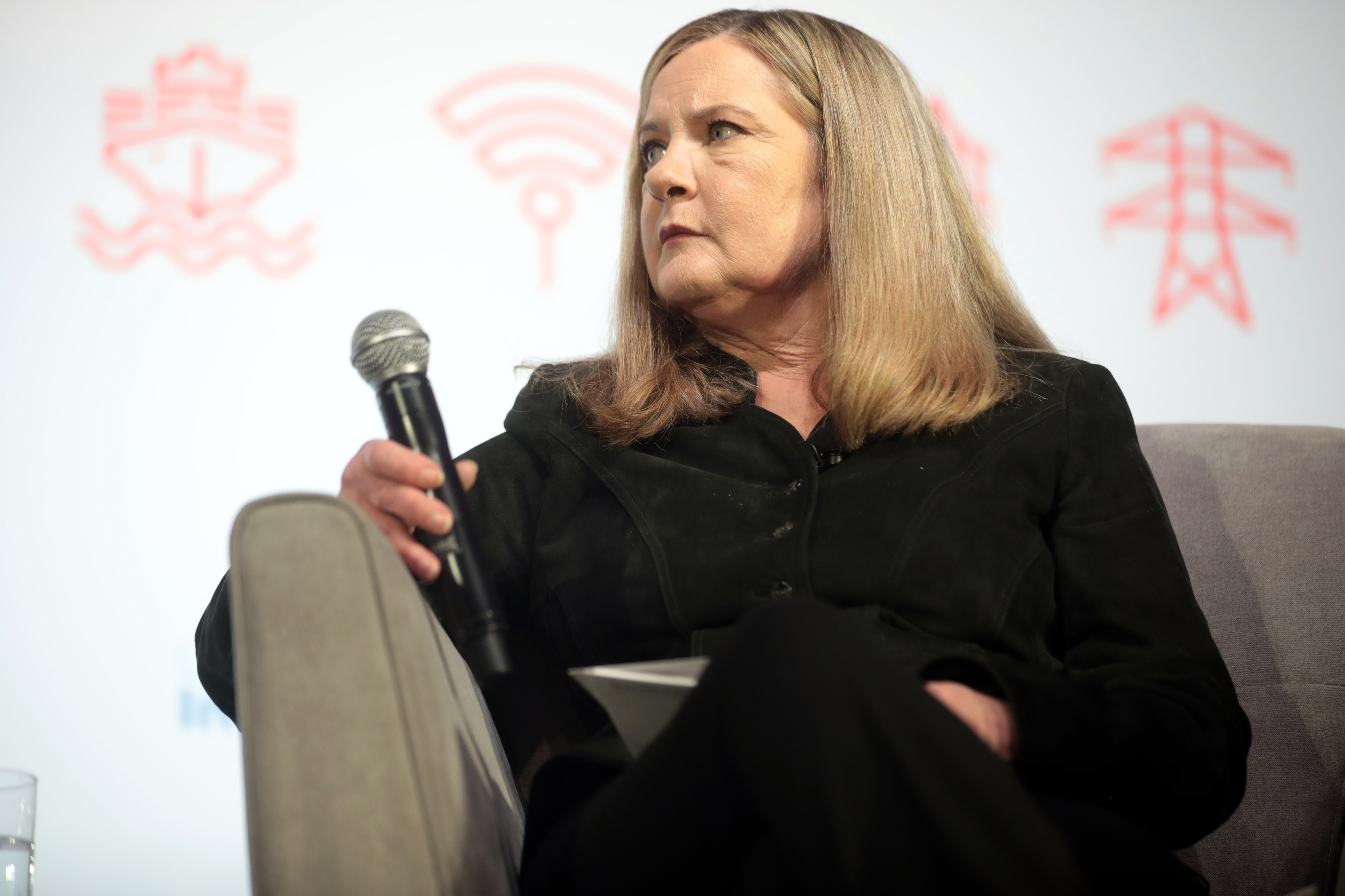 Jeanne Cummings speaking at an event in Las Vegas, Nevada.